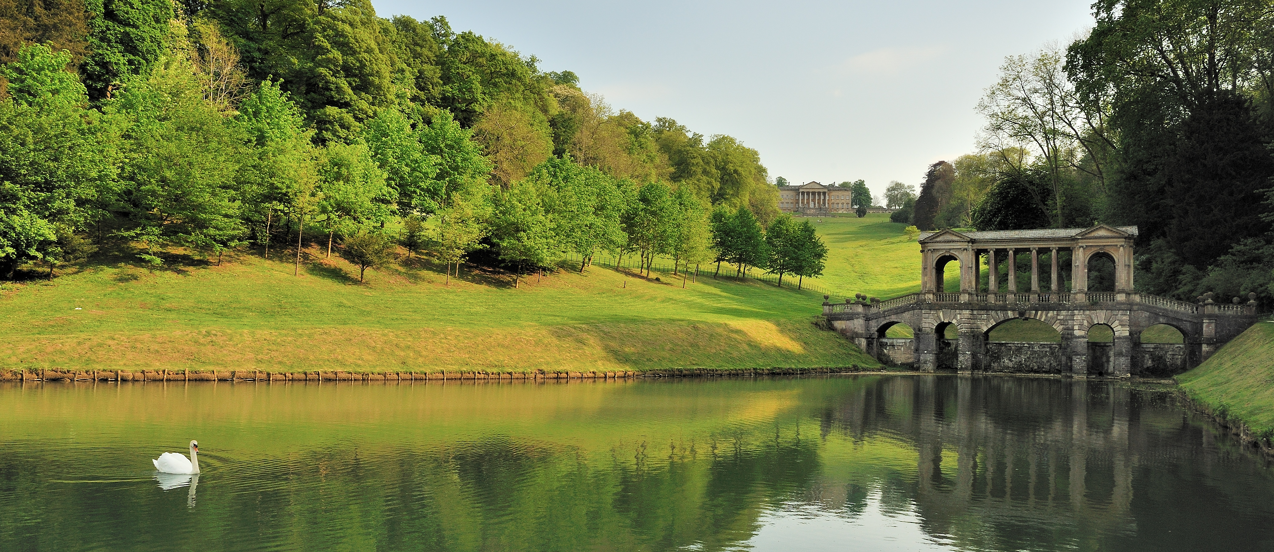 A view of Prior Park from below to include the Palladian Bridge and Prior Park College. The Palladian mansion which now houses Prior Park College was originally designed and built chiefly by John Wood, the Elder in 1742.